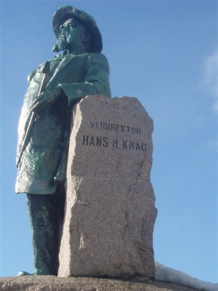 Statue of Hans Hagerup Krag by Gustav Lærum.